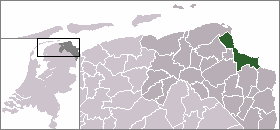 Locator map of Dutch municipalities in Groningen (LocatieDelfzijl.png)